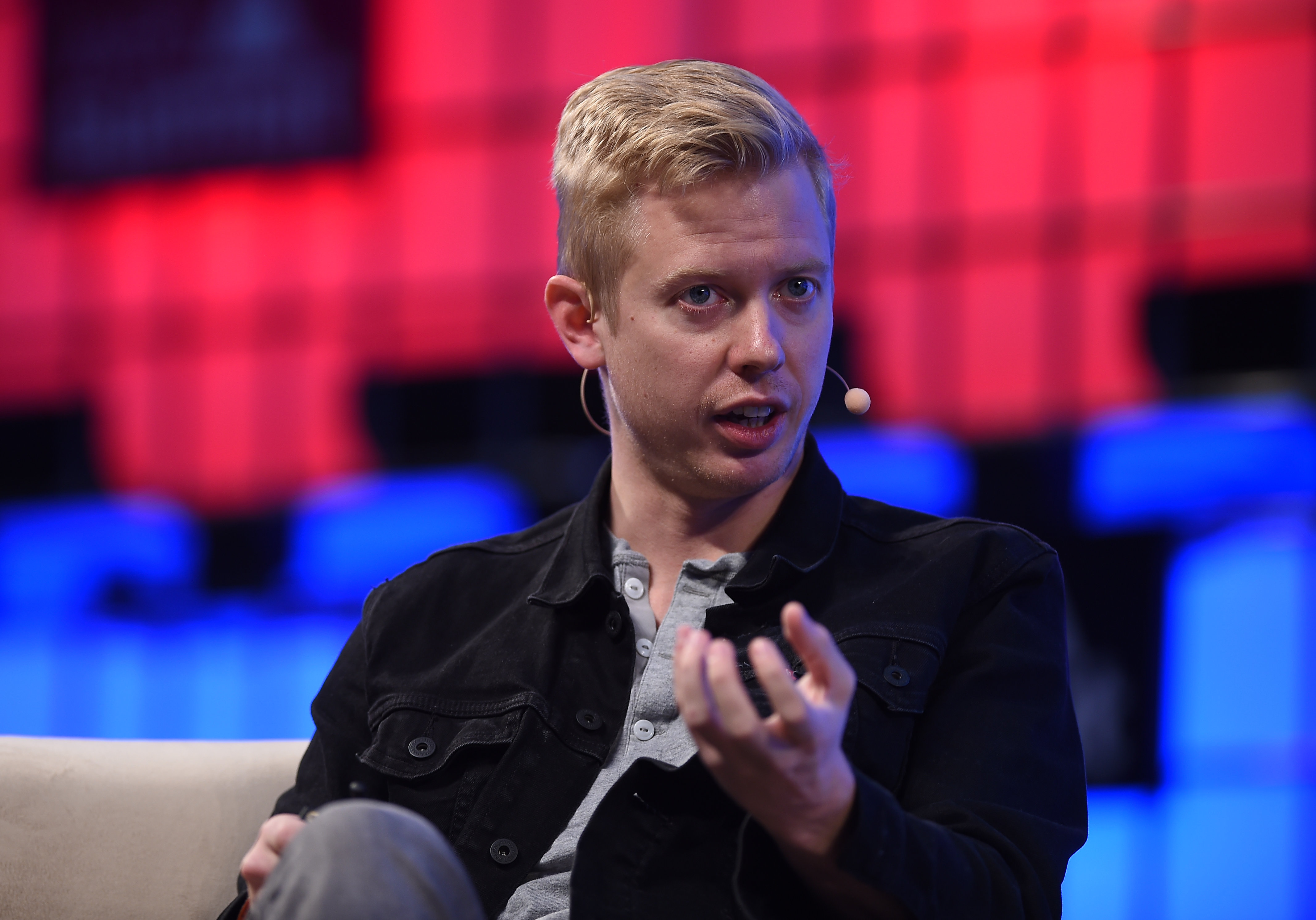 8 November 2017; Steve Huffman, CEO, Reddit, on Centre Stage during day two of Web Summit 2017 at Altice Arena in Lisbon. Photo by Cody Glenn/Web Summit via Sportsfile